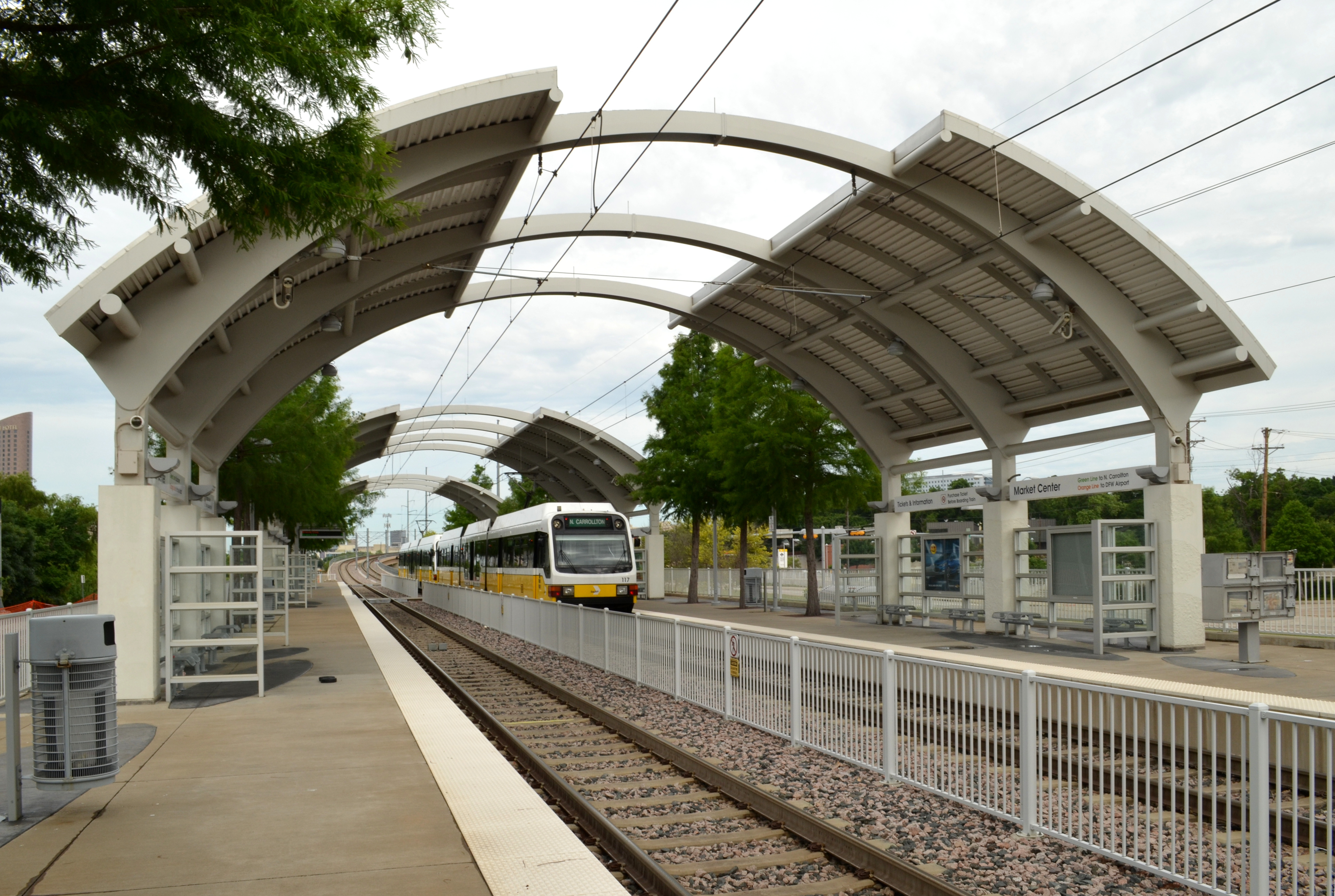 The Market Center DART Light Rail station in Dallas, Texas.